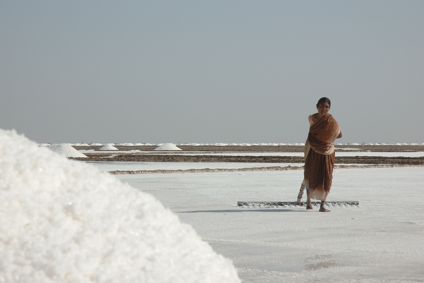 A woman working in the salt pans of the Rann of Kutch, Gujarat, India Norsk (nynorsk): Kvinneleg saltarbeidar i Rann av Katsj-ørkenen i Gujarat.